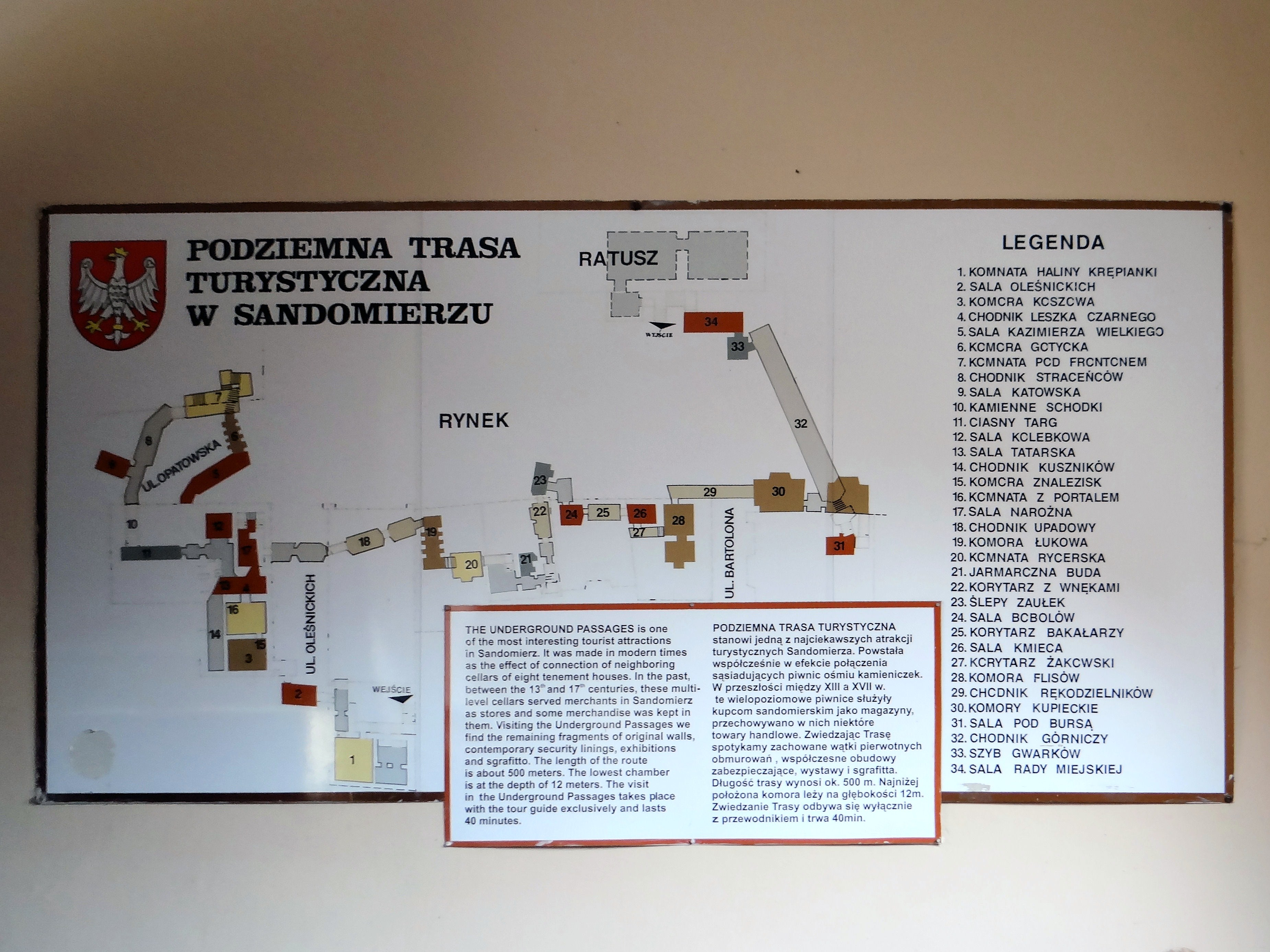 Cellars - the underground tourist route in Sandomierz